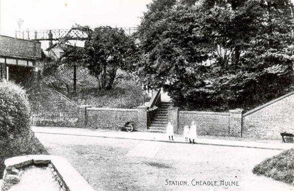 Station Road in Cheadle Hulme, at the entrance to the Cheadle Hulme railway station